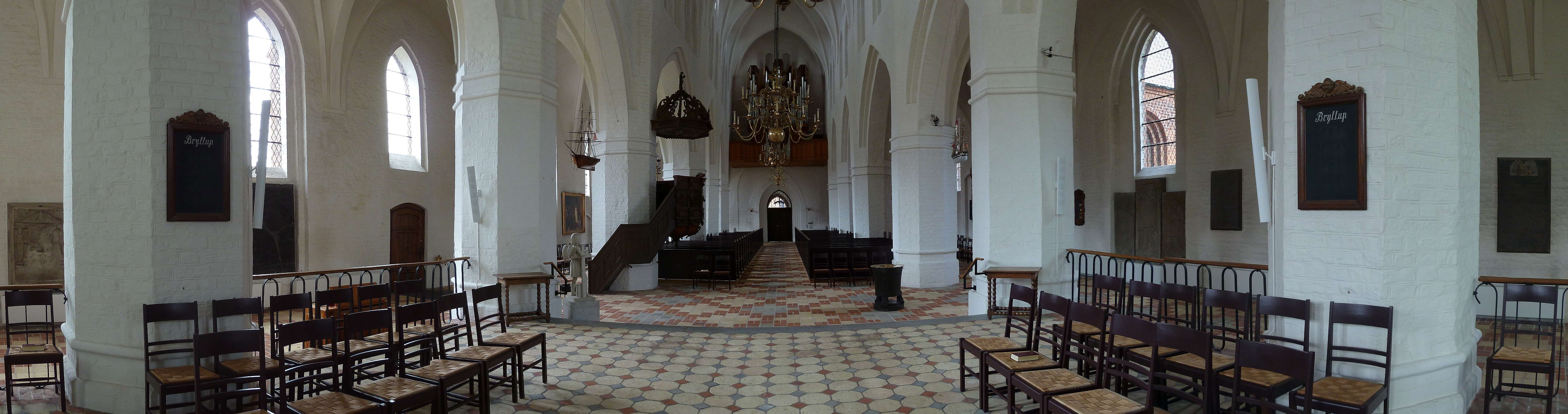 Panorama of the interior of Church of Our Lady in Assens, Denmark